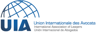 Union Internationale des Avocats logo.